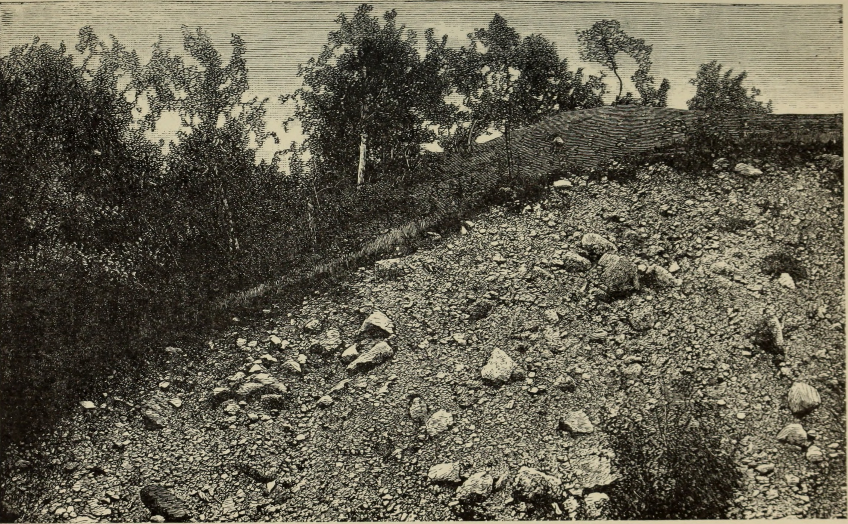 Title: The soil, its nature, relations, and fundamental principles of management Year: 1895 (1890s) Authors: King, F. H. (Franklin Hiram), 1848-1911 Subjects: Soils Publisher: New York, London : Macmillan and co. Text Appearing Before Image: a little and now retreating as variations in the rateof travel or the rate of melting occurred. Beneath thebottom of this slowly moving sheet of pressure-plasticice, which, with more or less difficulty, kept itself com-formable with the face of the land over which it wasriding, the sharper outstanding points were cut awayand the narrower and deeper river canons filled in.Desolate and rugged rocky wastes were ground down andoverspread with rich soil, and regions with sandstone forthe surface rock, which by decay in place could give onlylands of the lighter type, became mantled with thicklayers of mixed gravel, sand, and clay, forming by slowalteration rich and enduring soils. Great streams of water emerging from the melting icesorted and resorted the glacial grist, leaving in someplaces extensive beds of coarse, clean gravel with surfacessloping gently in the direction of discharge, over whichhas since developed one type of extremely fertile prairie n(!;t;;;:iriiri:; II liiilliSiilili Text Appearing After Image: a o7. o M 60 The Soil soil; leaving in other places beds of sharp plasteringsand, often interstratified in the most curious and abruptmanner with coarser or finer materials, while the finestsilt was farther removed to subside in innumerable lakes,formed by glacial dams, or to be borne away to the sea tocontribute materials for the extensive deposits of ourcoastal plains. Wlien the ice front tarried long at a given place, the